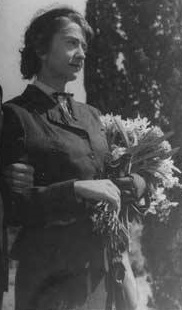 Maria Elina Ruas- Actriz